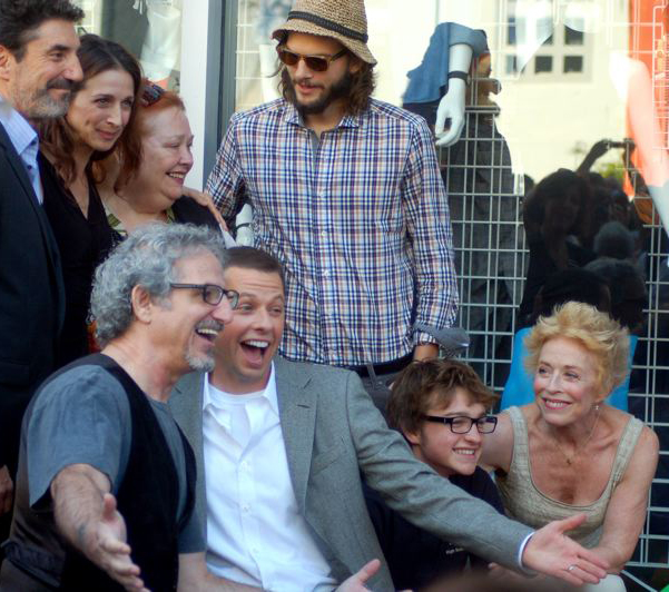 Chuck Lorre, Marin Hinkle, Conchata Ferrell, Ashton Kutcher, Lee Aronsohn, Jon Cryer, Angus T. Jones, and Holland Taylor at a ceremony for Cryer to receive a star on the Hollywood Walk of Fame in September 2011.